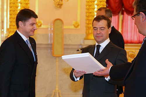 THE KREMLIN, MOSCOW. Presentation ceremony of foreign ambassadors’ letters of credentials. Ambassador of the Republic of Croatia Nebosja Koharovic presents his letter of credentials to the President.